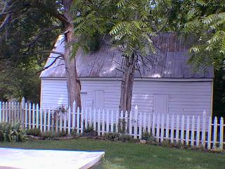 Circa 1800, Black Walnut Plantation